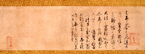 Letter by Emperor Go-Saga (後嵯峨天皇宸翰御消息, Go-Saga-tennō shinkan go-shōsoku). Only extant letter of Emperor Go-Saga, addressed to the cloistered Prince Doshin of Ninna-ji. Located at Ninna-ji, Kyoto, Japan. The item has been designated as National Treasure of Japan in the category ancient documents.